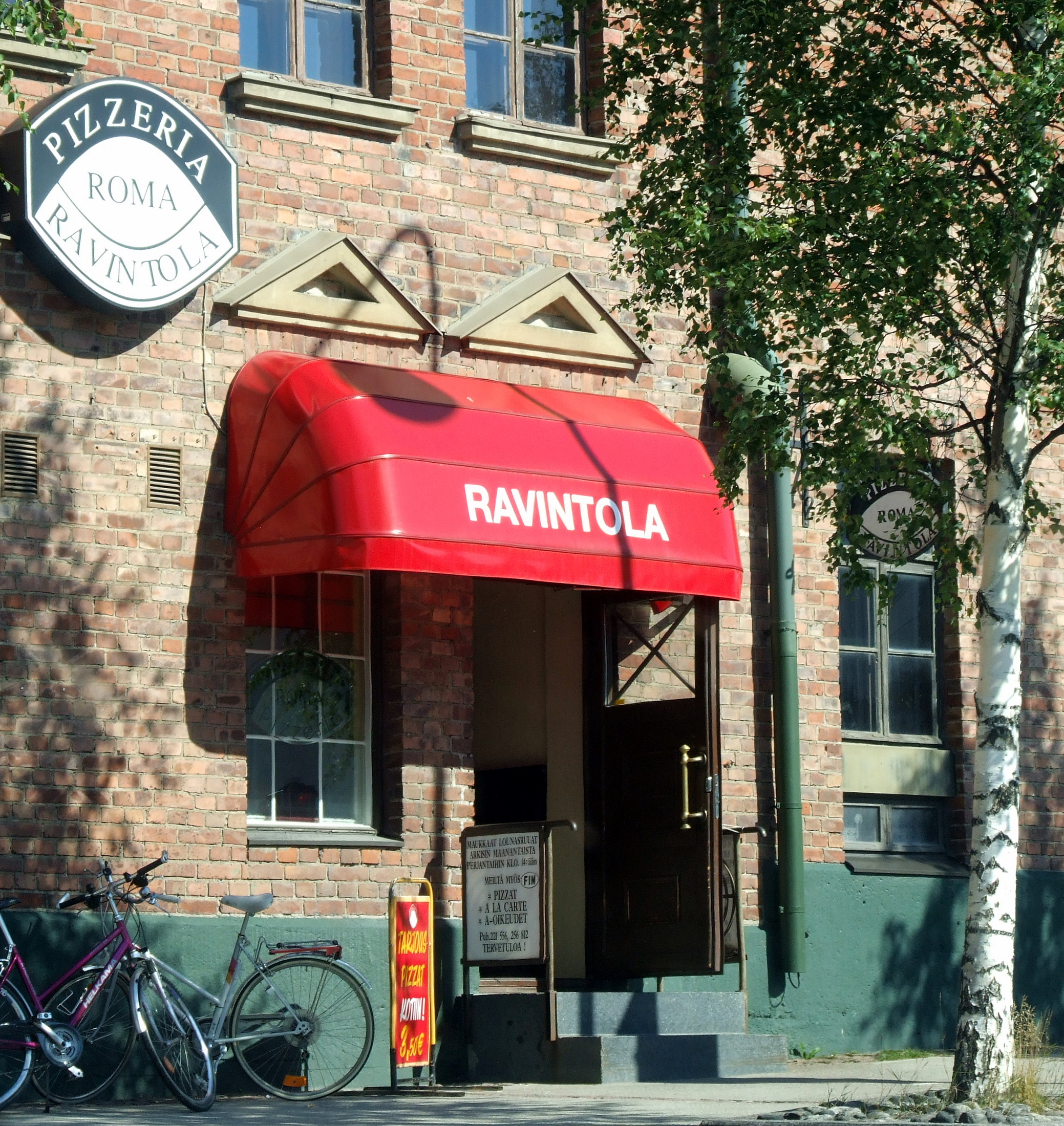 The restaurant Pizzeria Roma in Kemi, Finland.